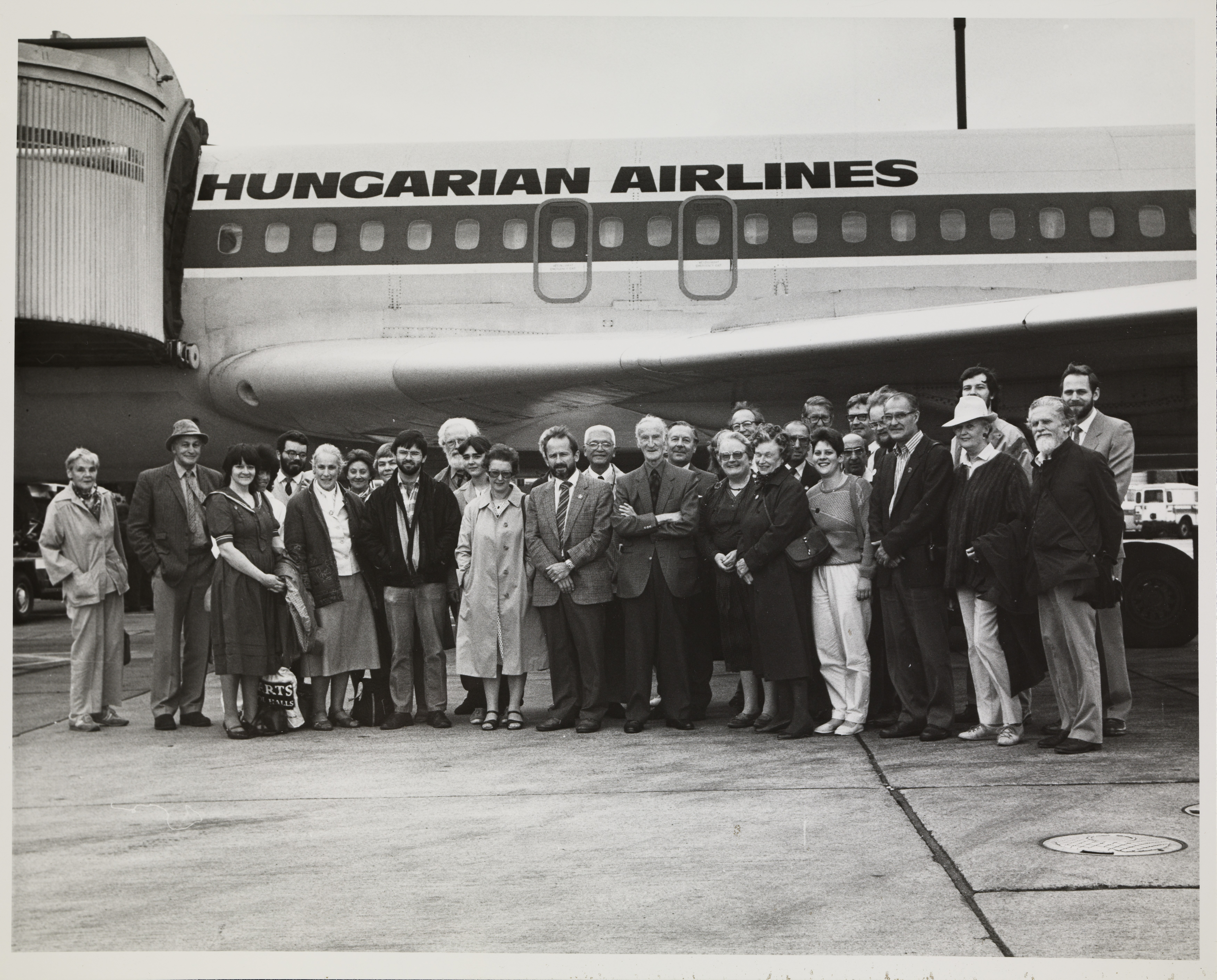 IPPNW 4th Congress. Goup photograph outside Hungarian Airlines plane. International Physicians for the Prevention of Nuclear War (IPPNW), was founded in 1980 to coordinate the efforts of doctors campaigning against nuclear weapons in similar organisations across the world. Medact was formed in 1992 as a merger between the Medical Campaign Against Nuclear Weapons (MCANW) and the Medical Association for the Prevention of War (MAPW). Archives & Manuscripts